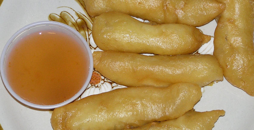 American Chinese cuisine chicken fingers